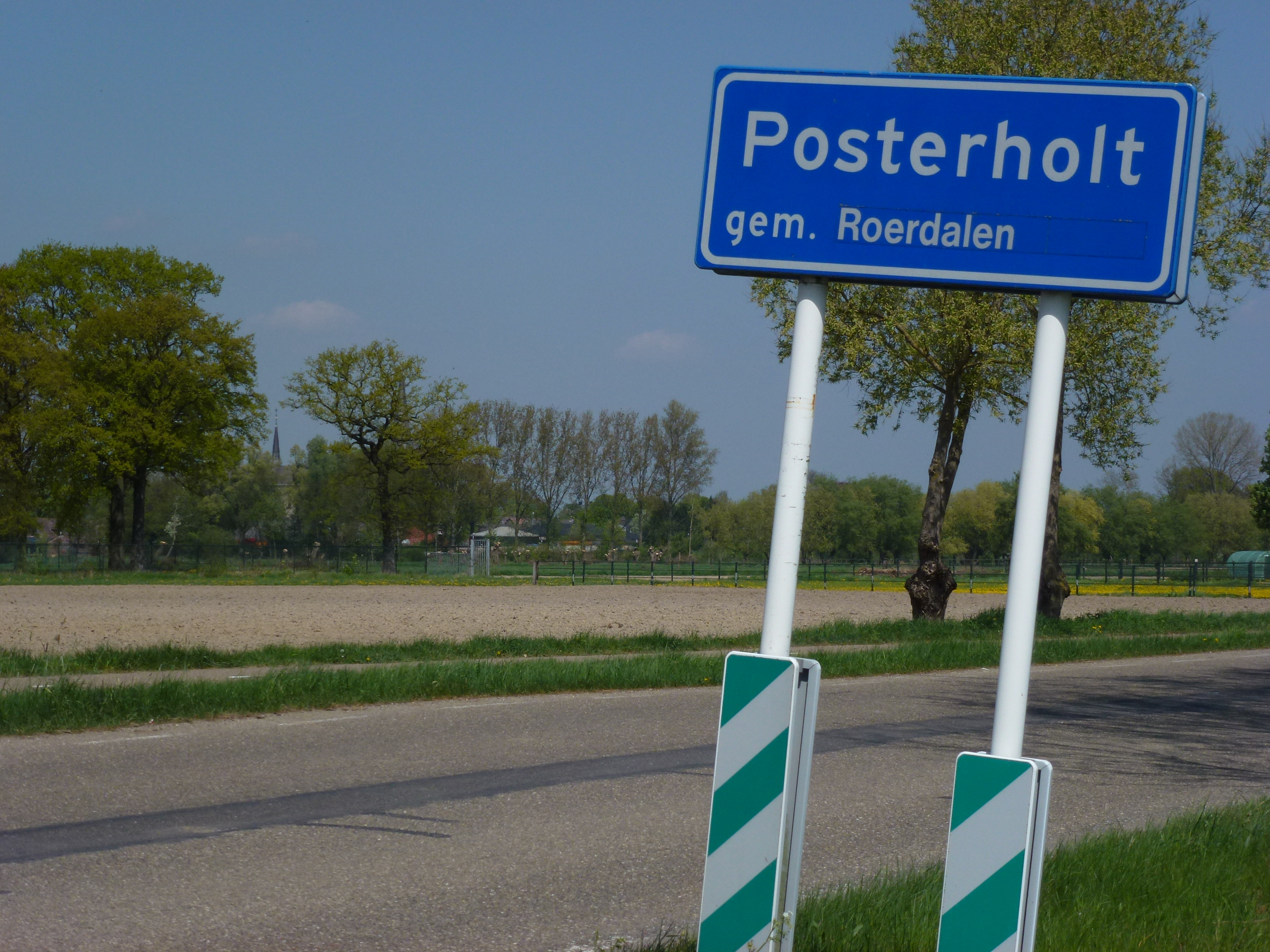 Posterholt (Roerdalen) entreebord